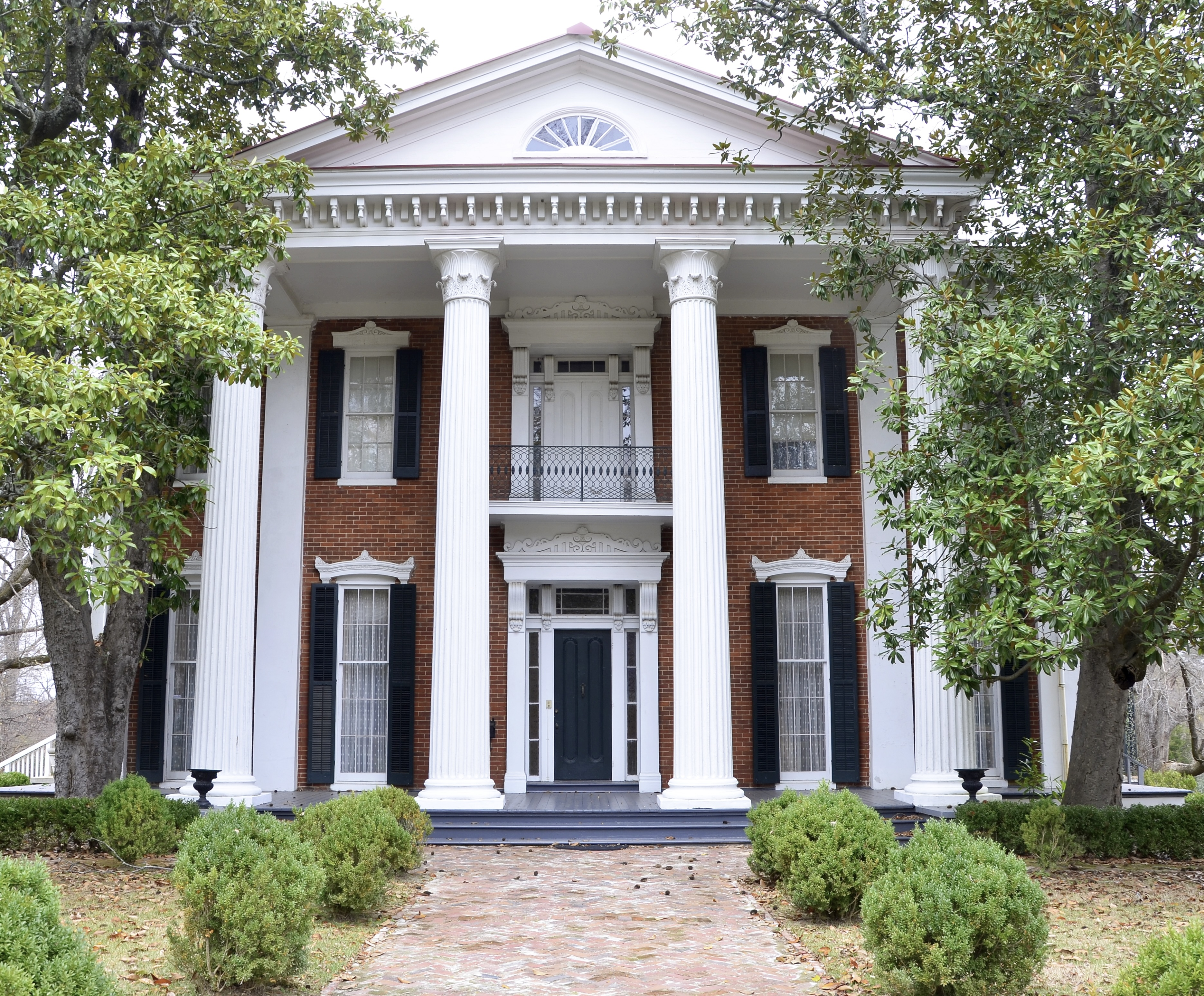 "Athenia", also called "Oakleigh" and "Clapp-Fant House", is located at 330 Salem Avenue, Holly Springs, Mississippi. It was constructed in 1858.